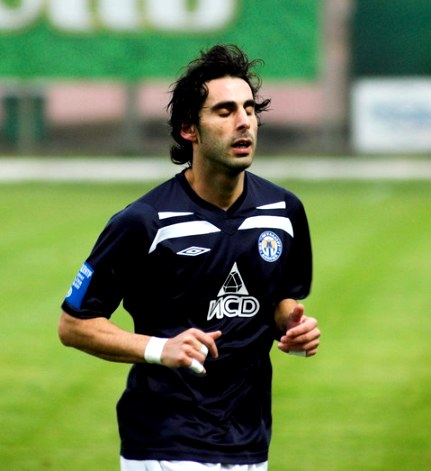 Mário Sérgio is a Portuguese football player